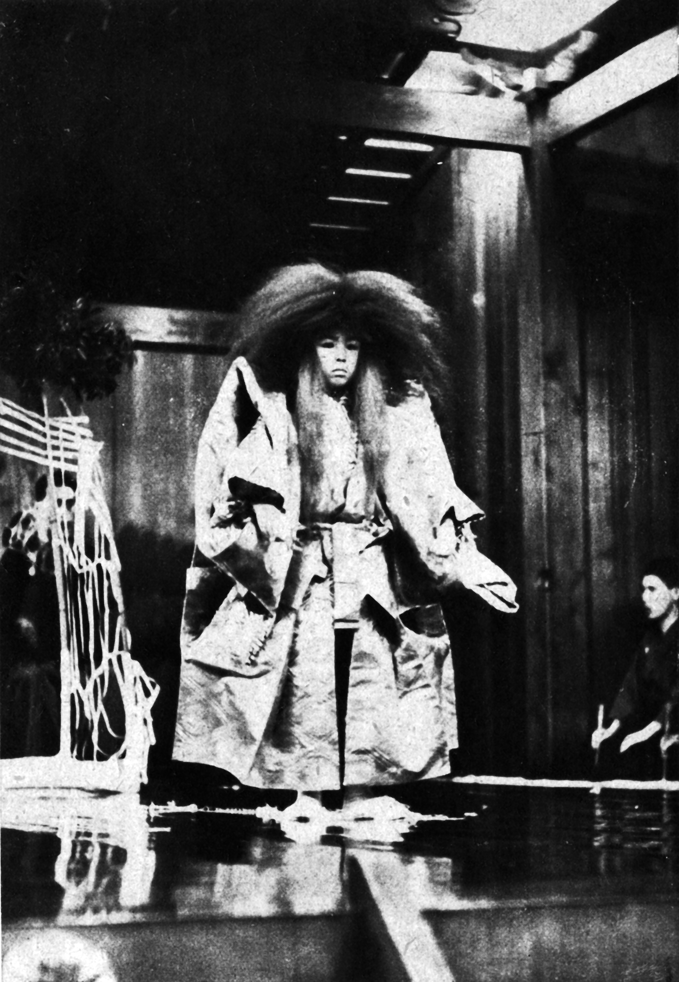 stage photo: Noh play Tsuchigumo, KANZE Motomasa